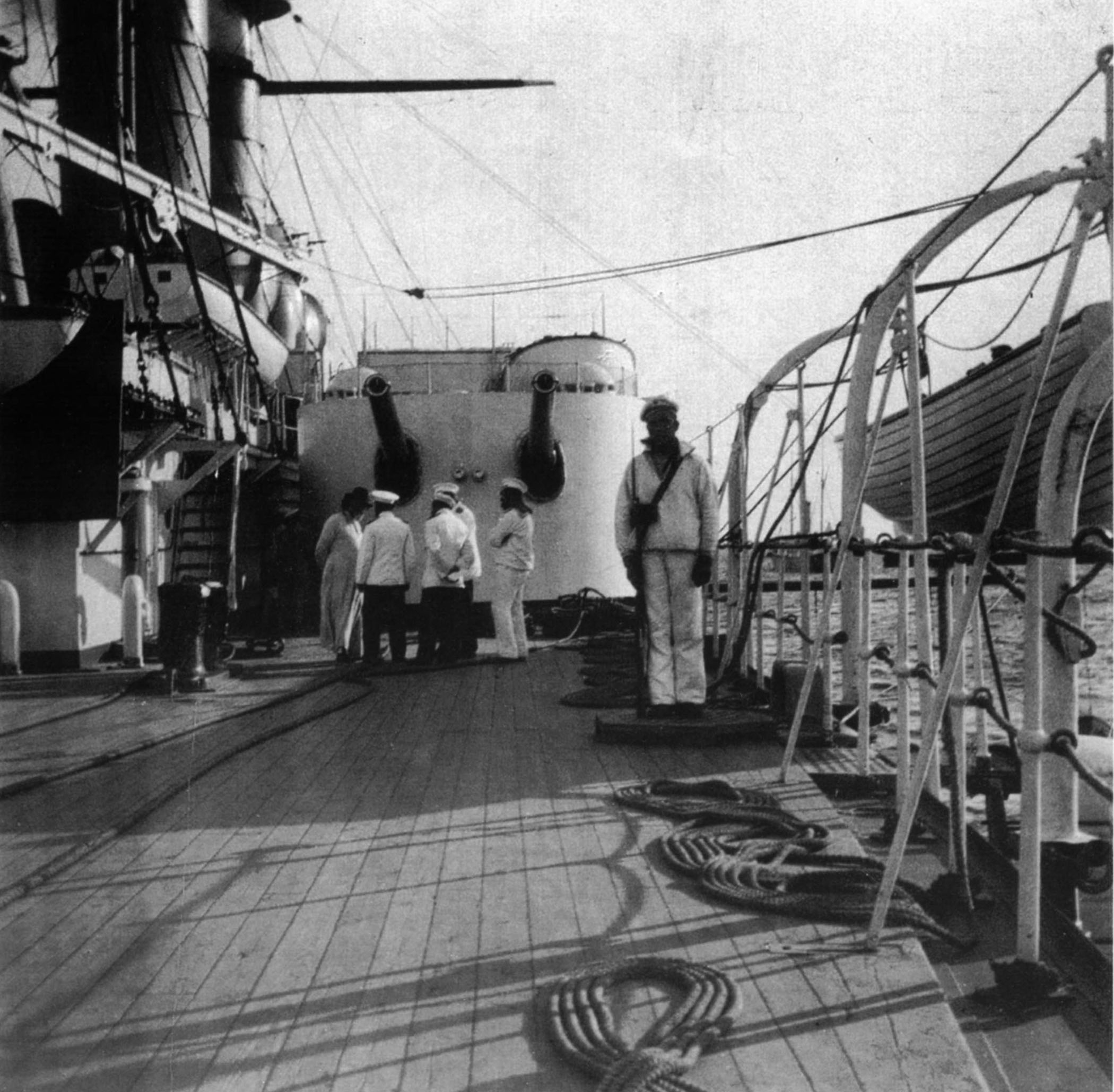 Imperial Russian battleship Rostislav.